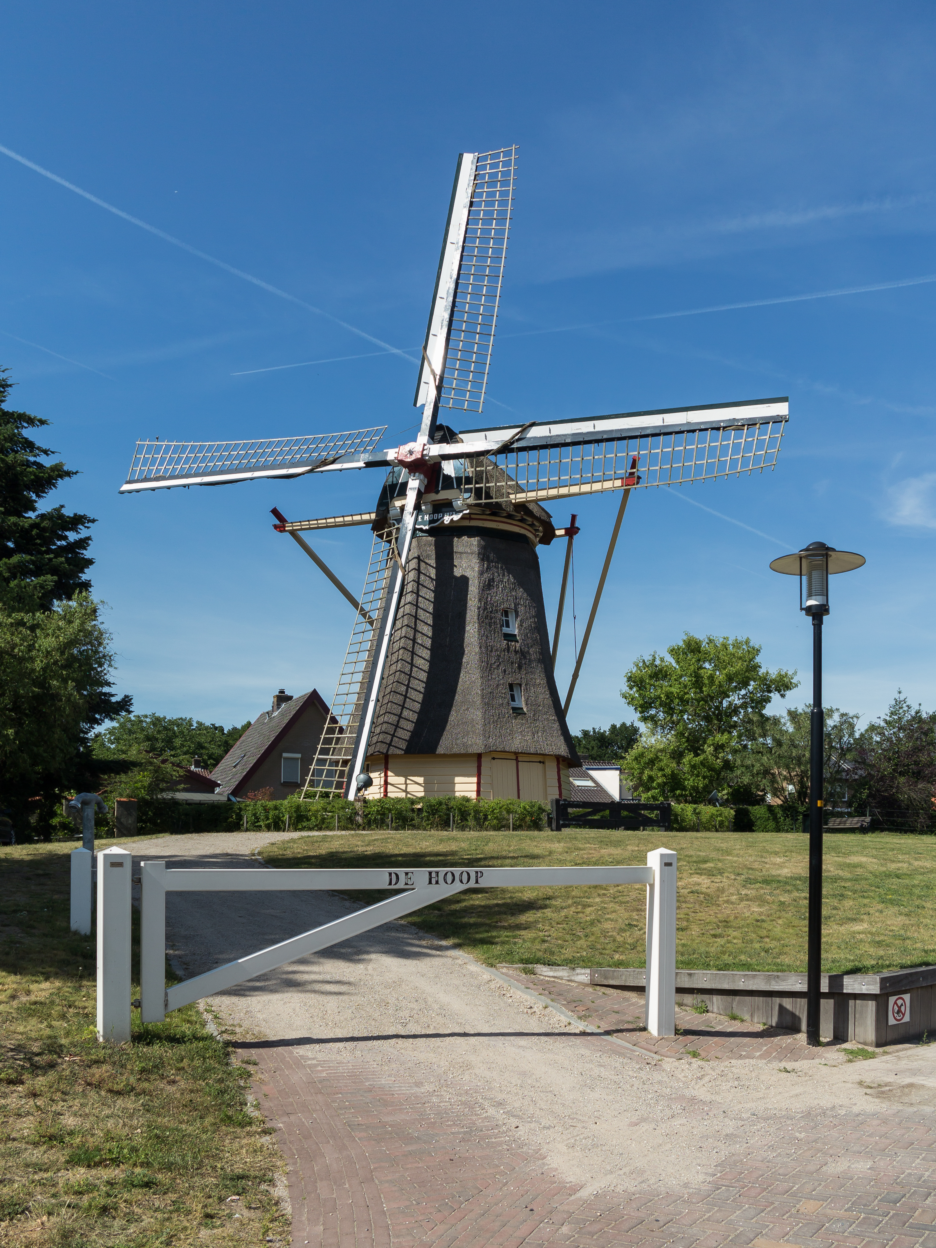 Lunteren, windmill: windkorenmolen de Hoop